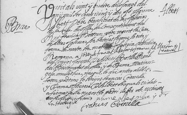 Birth register (in Catalan) of Joseph d'Abert (Ille-sur-Têt, 1722)